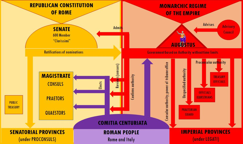 Digital Reproduction of diagram found in The Anchor Atlas of World History, Vol. 1 (From the Stone Age to the Eve of the French Revolution) Paperback – December 17, 1974 by Werner Hilgemann, Hermann Kinder, Ernest A. Menze (Translator), Harald Bukor (Cartographer), Ruth Bukor (Cartographer)